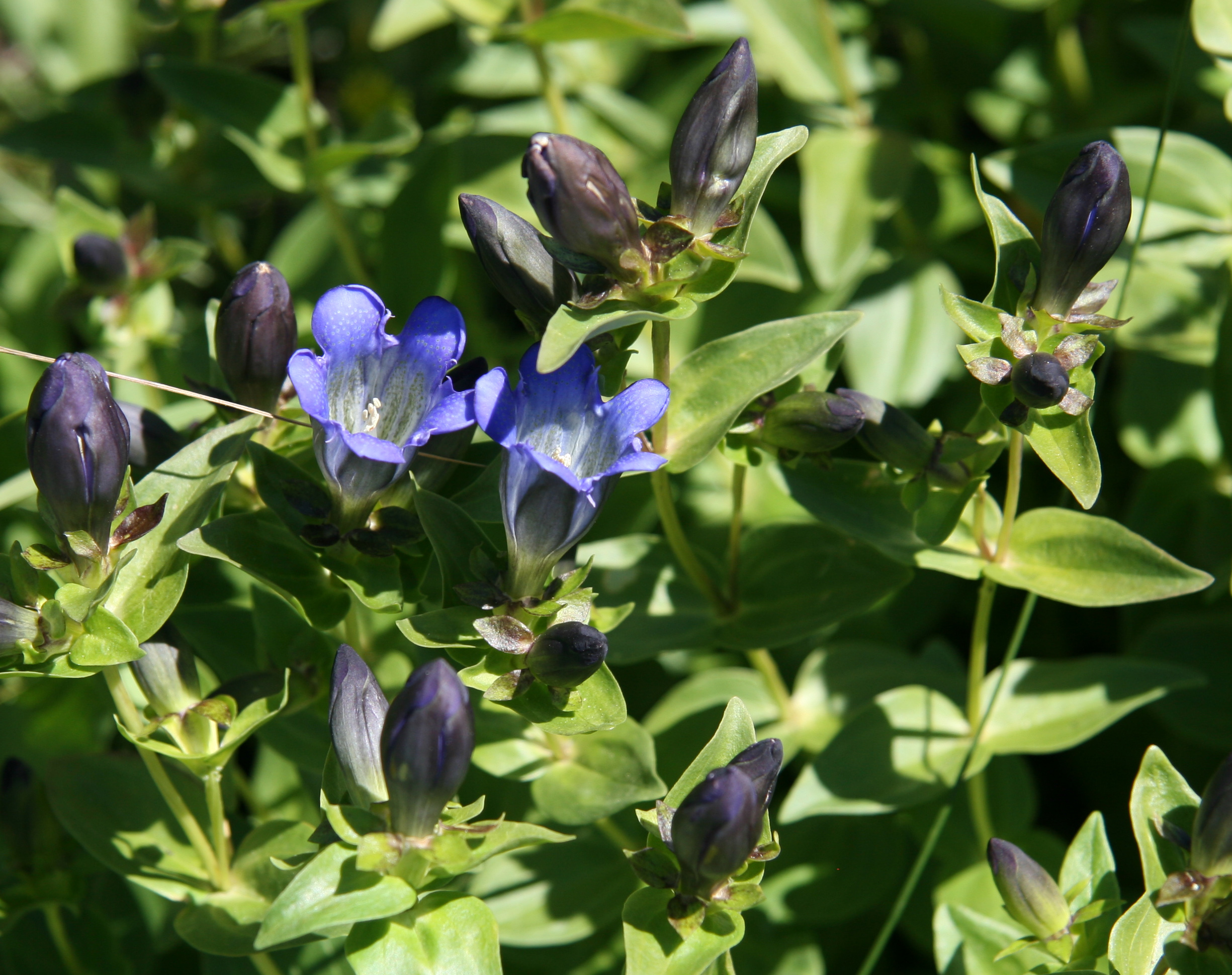 Explorers gentian (Gentiana calycosa) flowers, buds, and leaves. At 2,600 m (8,500 ft) along trail north from Timber Gap and Mineral King, in Sequoia National Park, California.